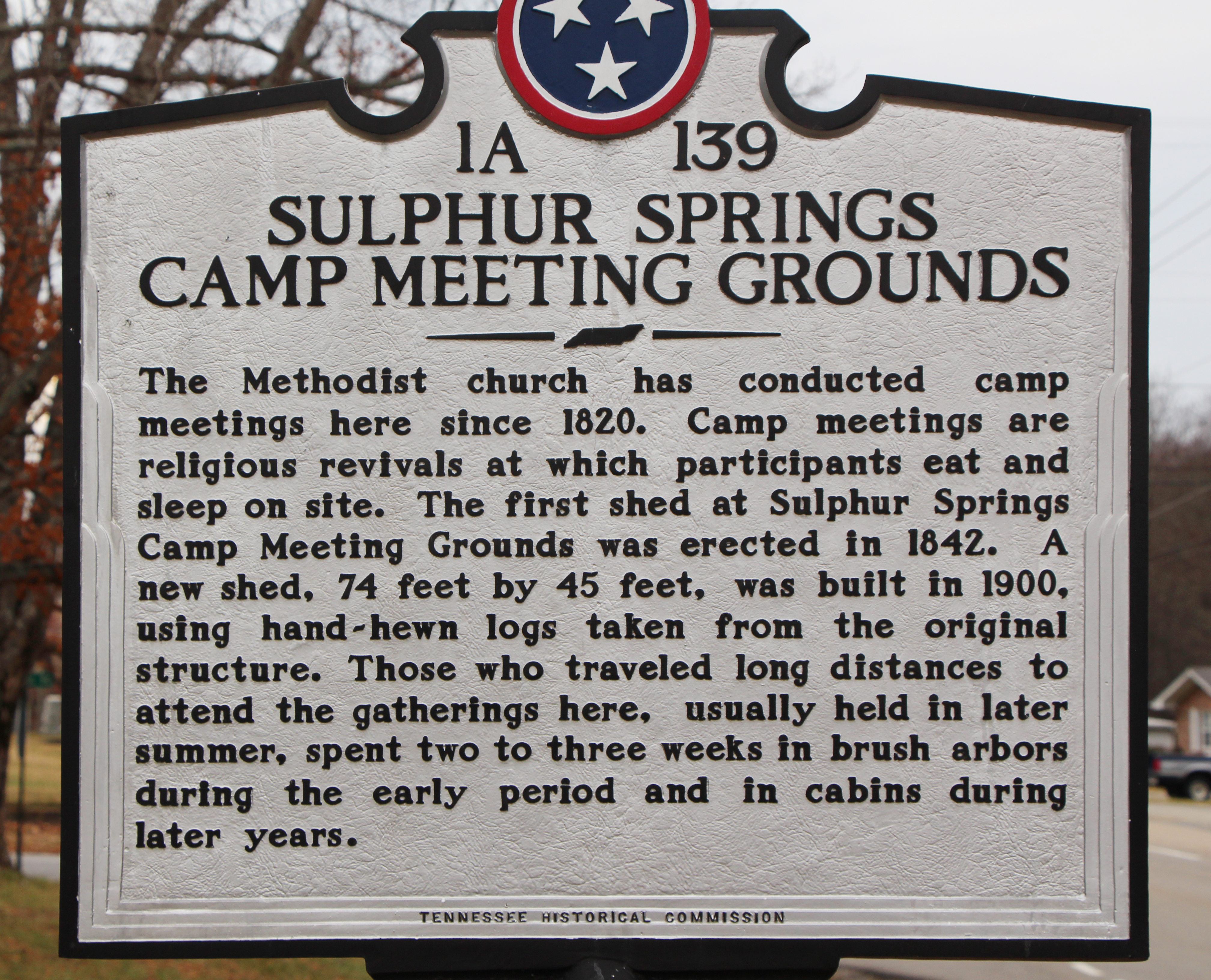 DeVault Tavern